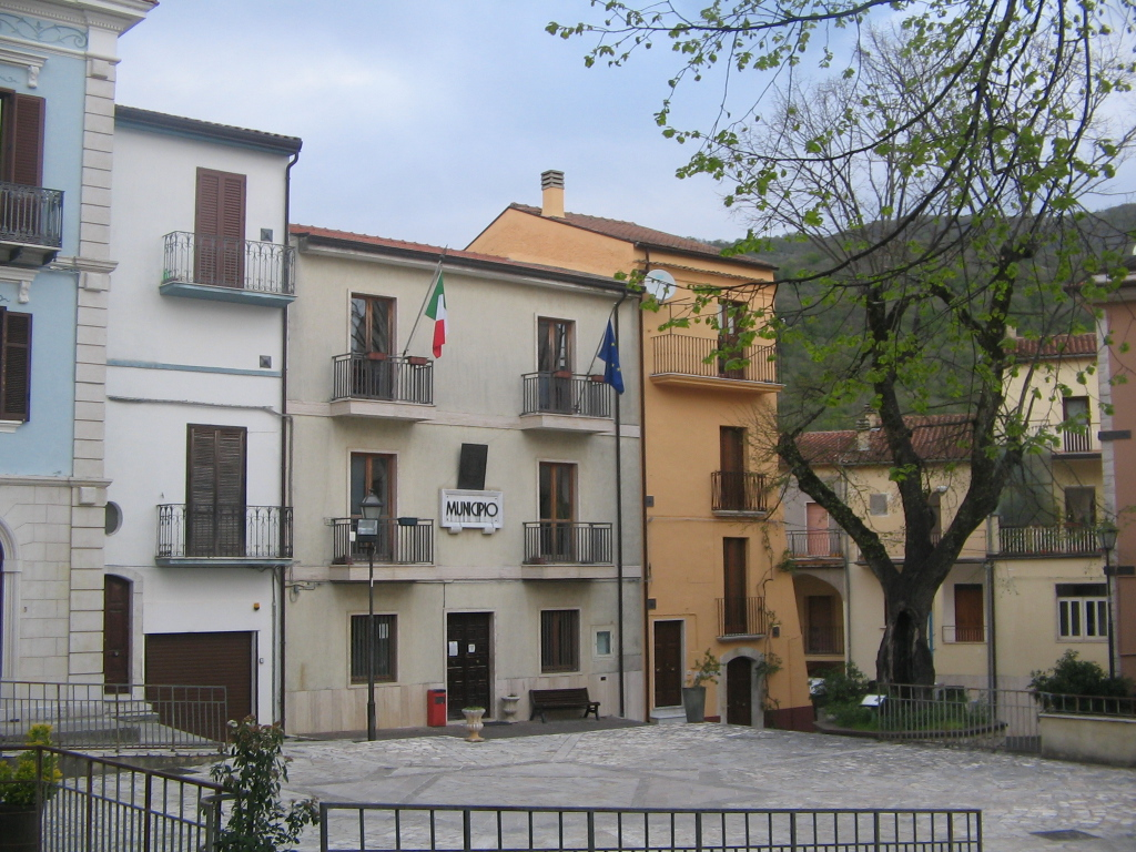 View of the town hall of Filignano (Molise, Italy). In the square is located the "Immaculate Conception" church.